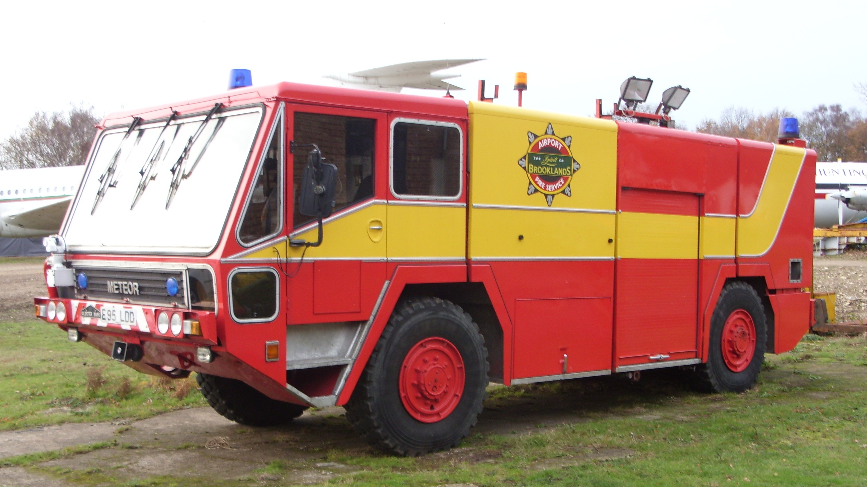 "E95 LDD" is a Gloster Saro Meteor light foam tender for airport use, originally used at London Heathrow Airport it is now with the Brooklands Museum, Surrey, England